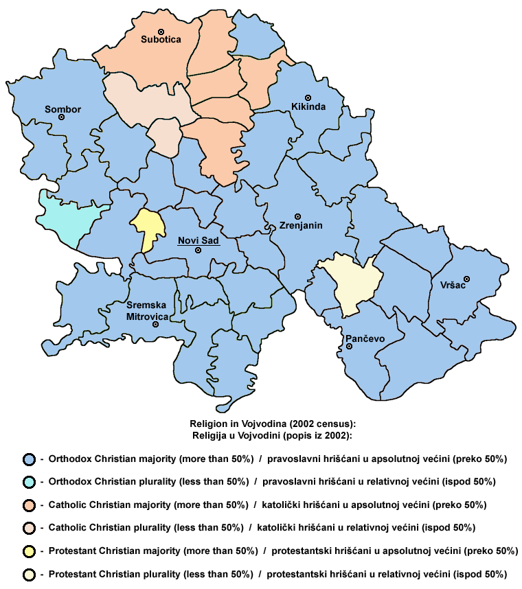 Map of religions in Vojvodina - data by municipality (2002 census)